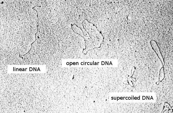 Plasmids in different shapes under an electron microscope